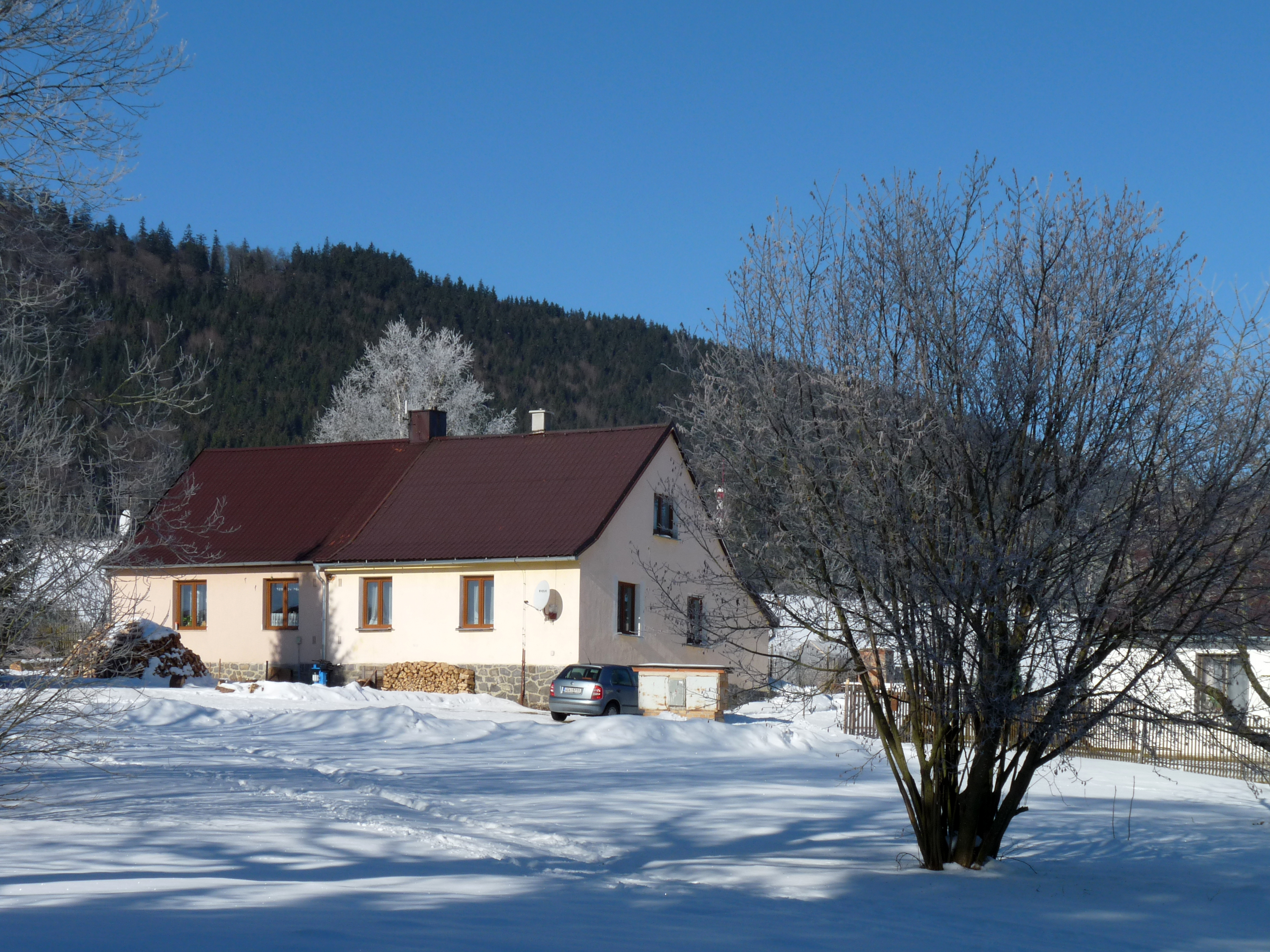 House No 11 in the village of Vlčí Jámy, part of the municipality of Lenora, Prachatice District, South Bohemian Region, Czech Republic.